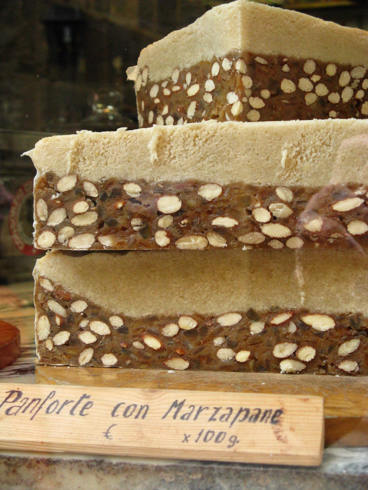 Panforte at a shop in San Gimignano, Tuscany, Italy.